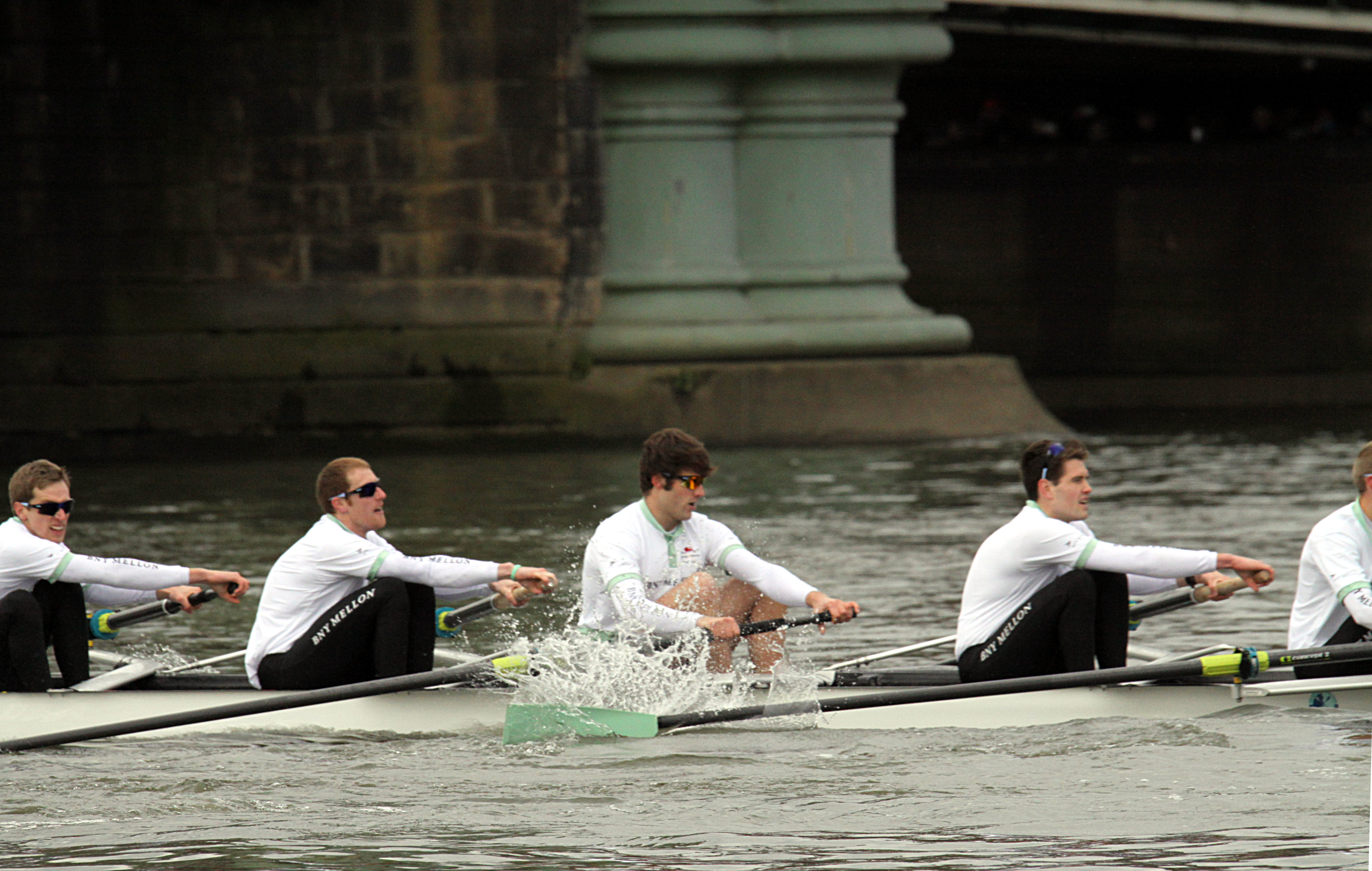 Race between Oxford (dark blue dresses) and Cambridge (white dresses) during the Boat Race on River Thames, England, Great Britain. Left to right: Ty Otto, George Nash, Stephen Dudek and Alexander Scharp.